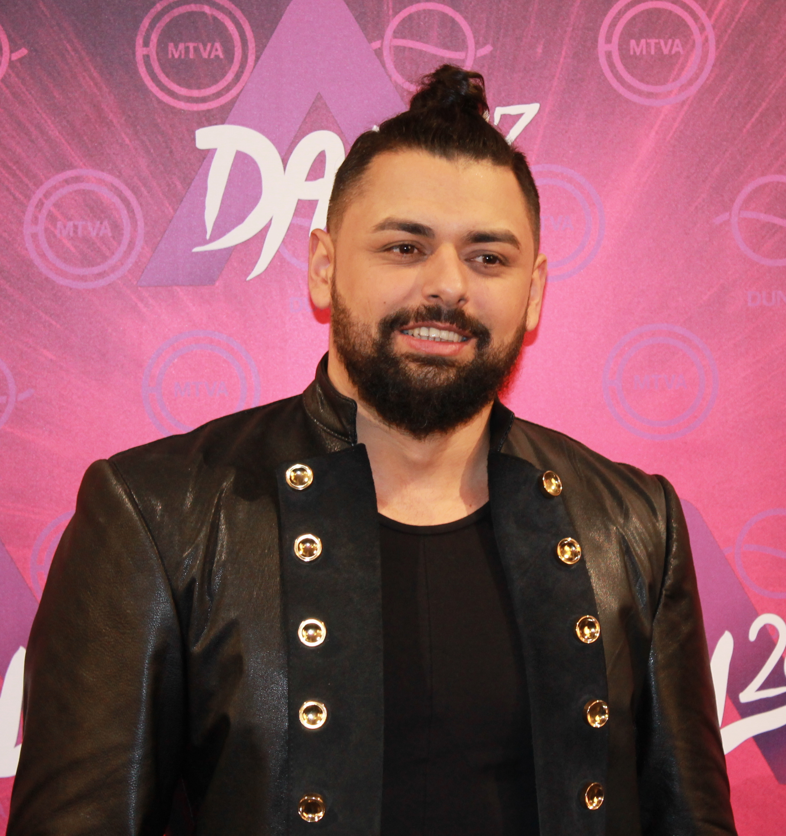 A Dal 2017 participant: Joci Pápai